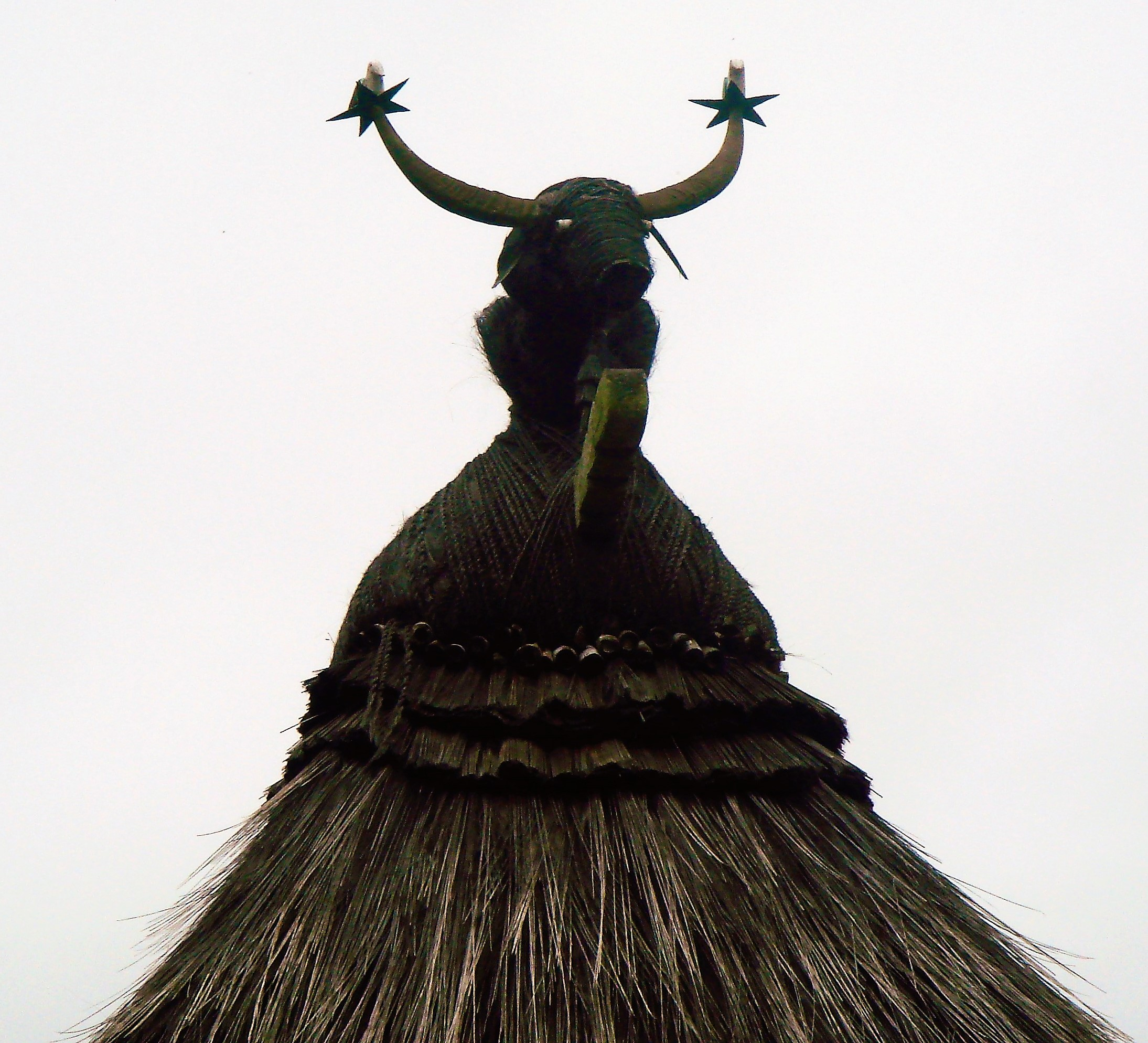 Roof of holy house of Borulaisoba in Ahabu'u. The Stars represents God (the values) Birds represent Peace, fertiality and Prosperity (the Female) Buffalo Head represents Strength/Security (the Male)